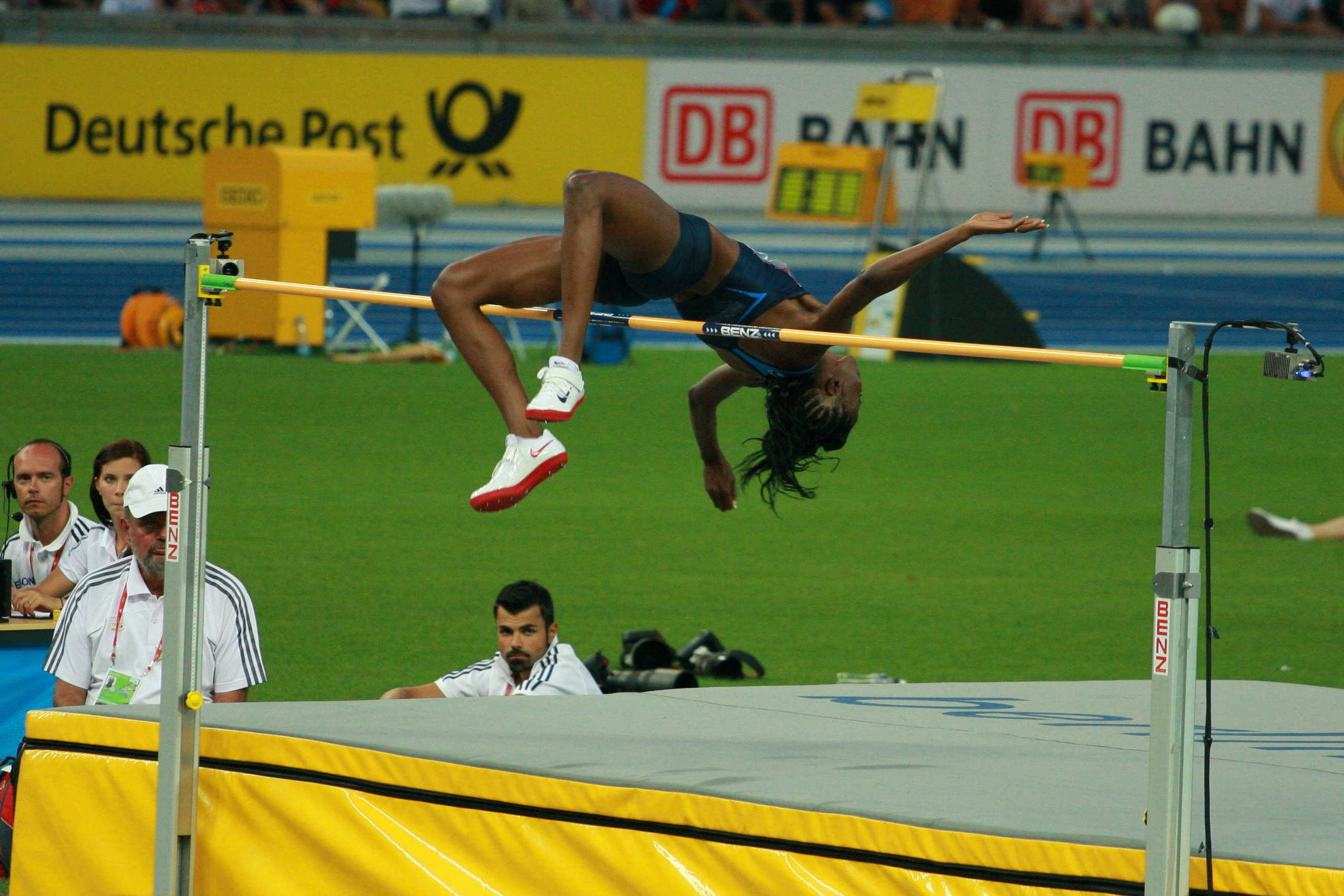 High Jump Final